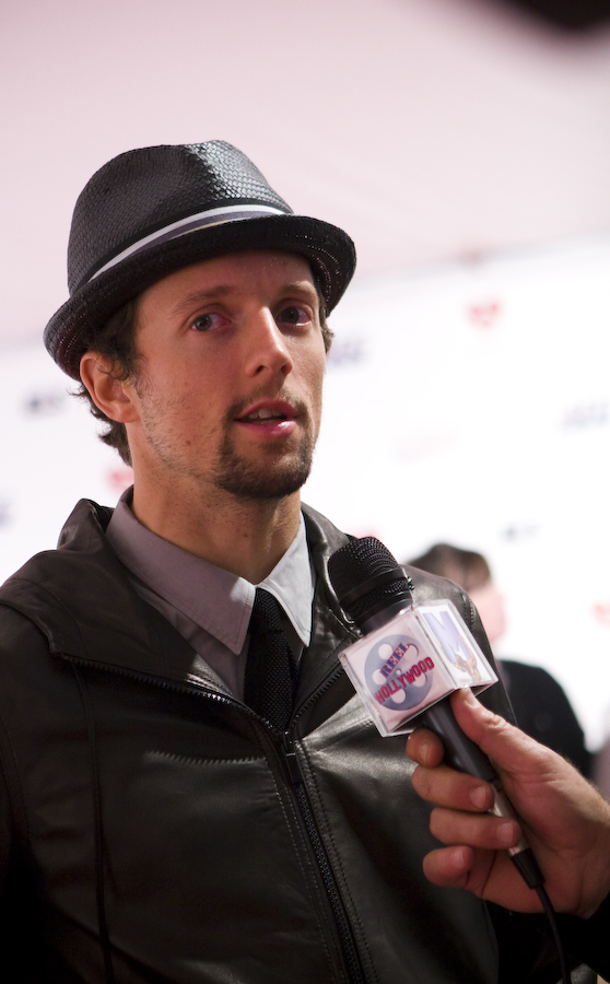 Jason Mraz